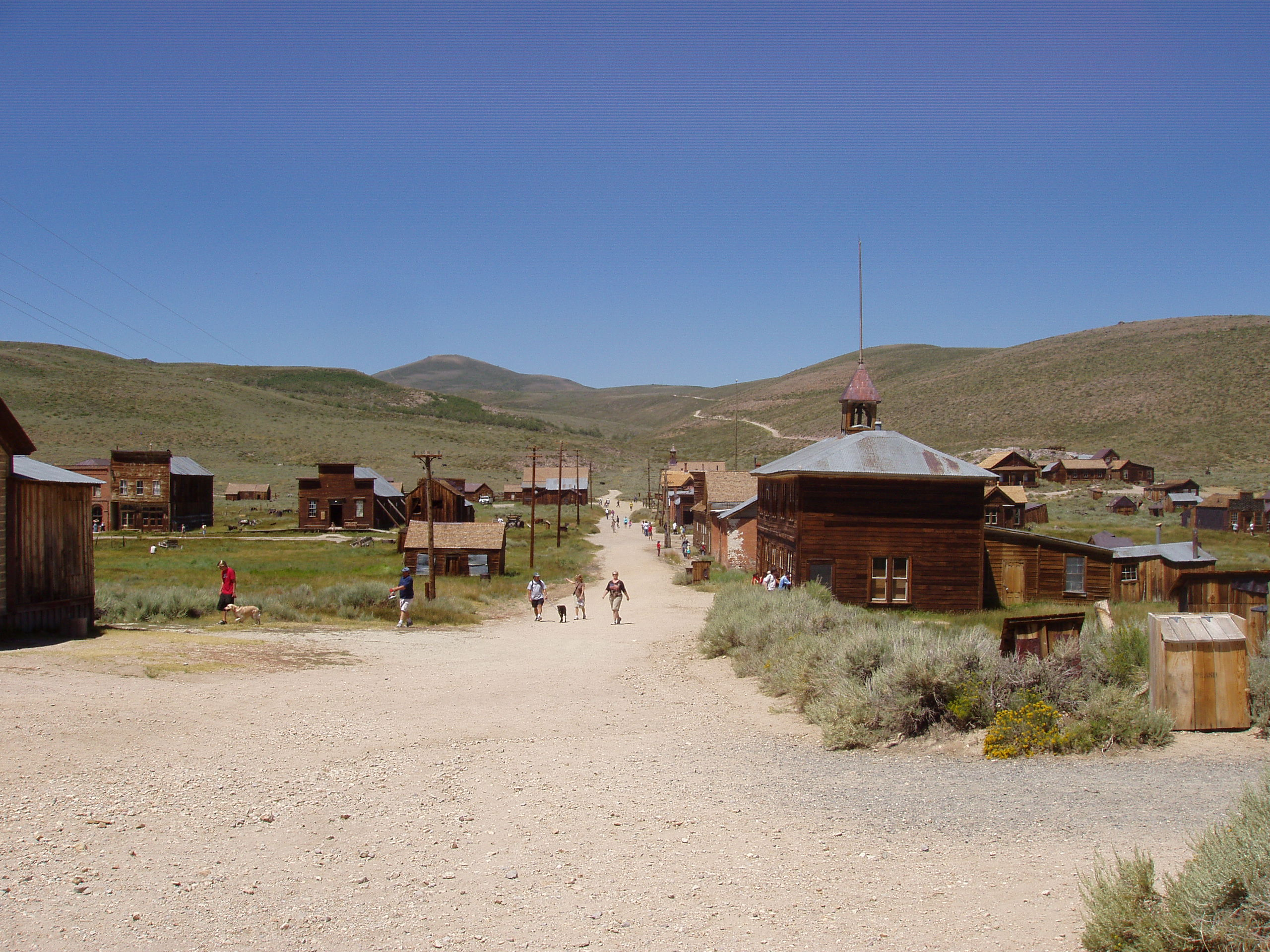 Bodie, California ghost town, as seen from the hill, looking towards the cemetery, in Mono County, California.